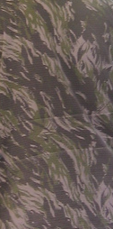 Lebanese Commando Regiment Tigerstripes camouflage.